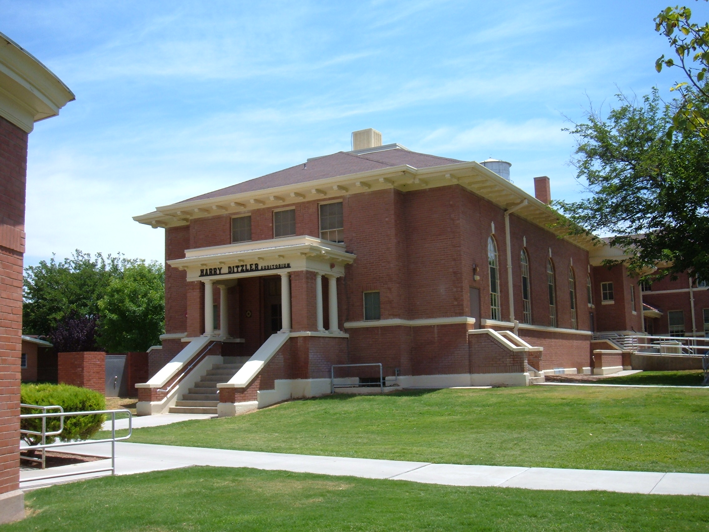 Harry Ditzler auditorium at the New Mexico School for the Blind and Visually Impaired at Alamogordo, New Mexico. This building is typical of architecture at the school.